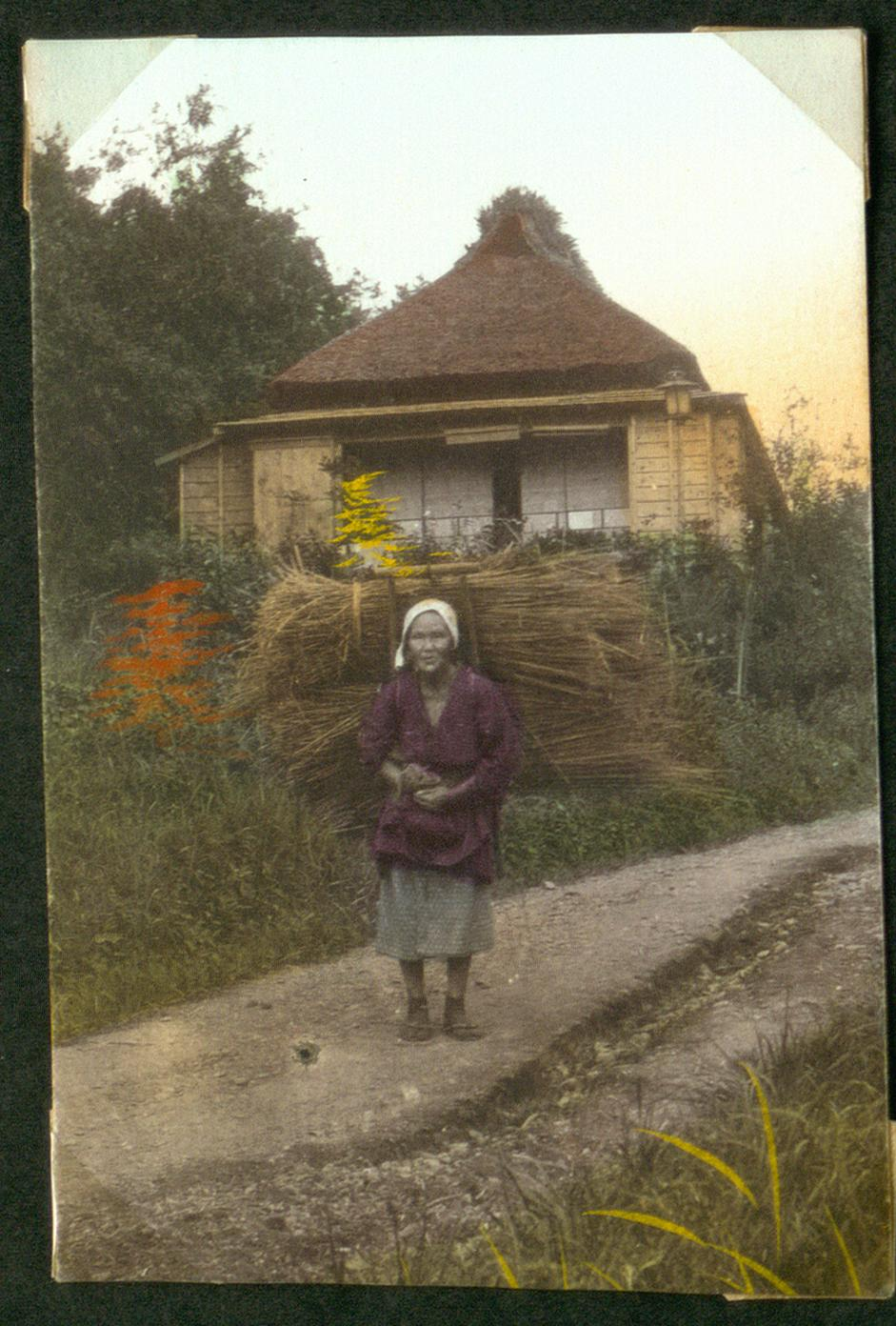 Part of a collection which belonged to journalist Holger Rosenberg. No. es_b_00615a